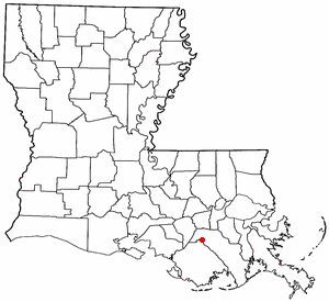 Map of Louisiana, dot on Schriever